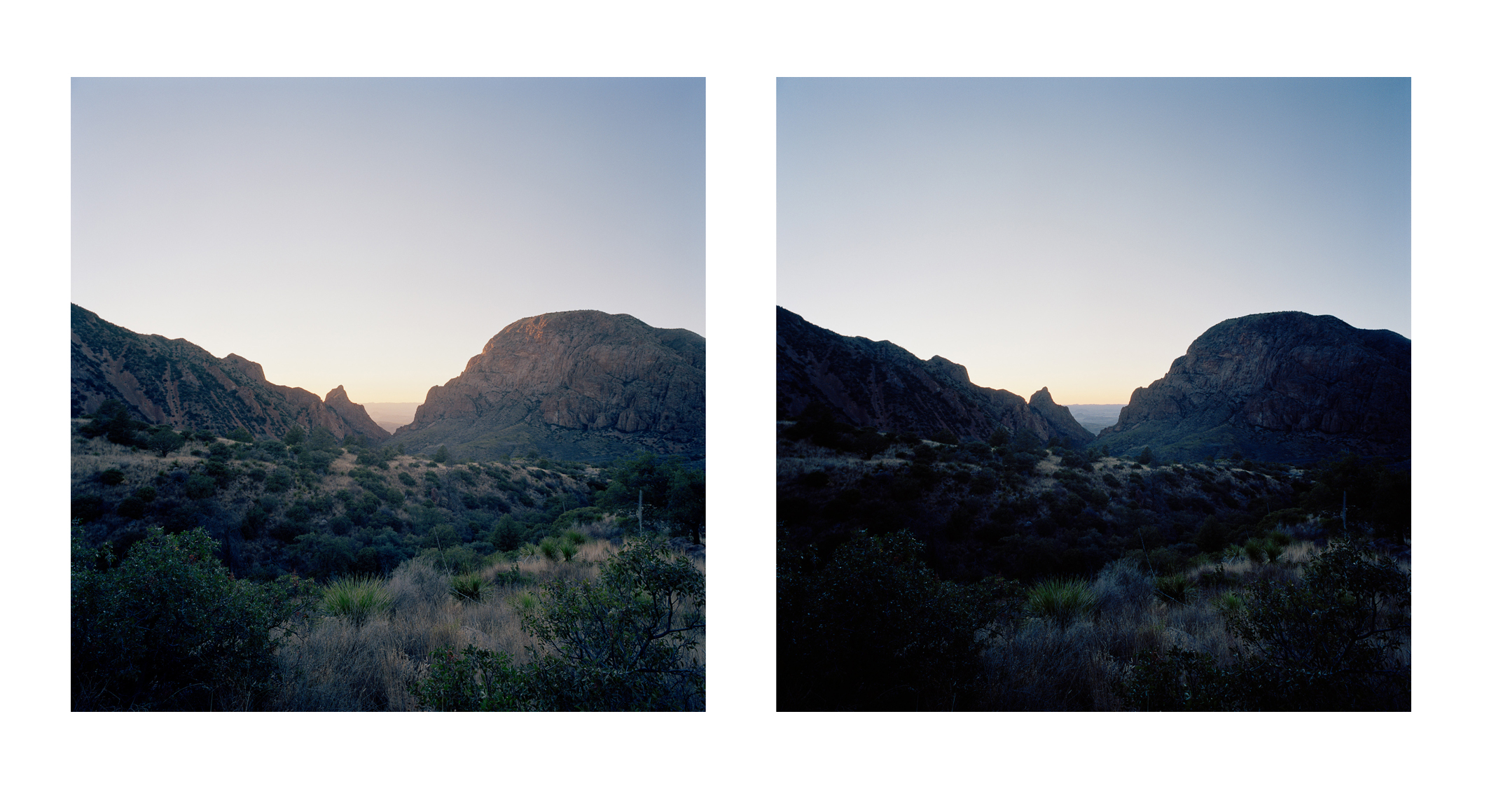 Digital Color Print, Diasec 2x 180x180cm Edition of 3 +1AP